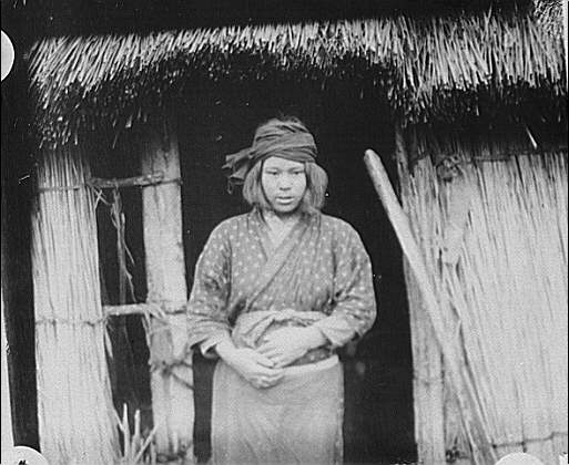 Title: Ainu woman standing by the doorway of a hut Abstract/medium: Genthe, Arnold, 1869-1942. Physical description: 1 slide